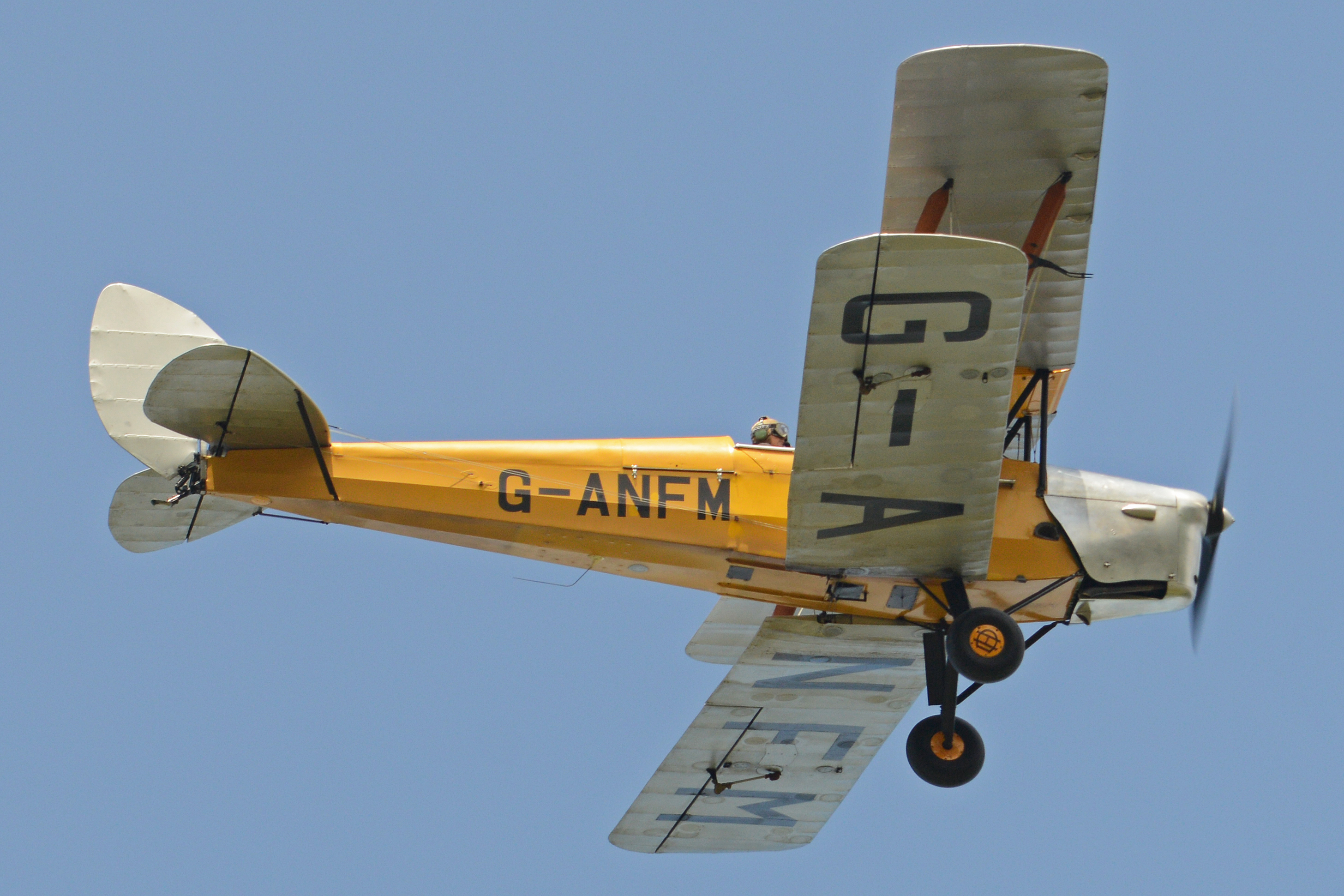 c/n 83604. Built 1941 for the RAF as 'T5888'. Seen arriving as a visitor at the Shuttleworth 2017 Season Premier Airshow, Old Warden. Bedfordshire, UK. 7th May 2017